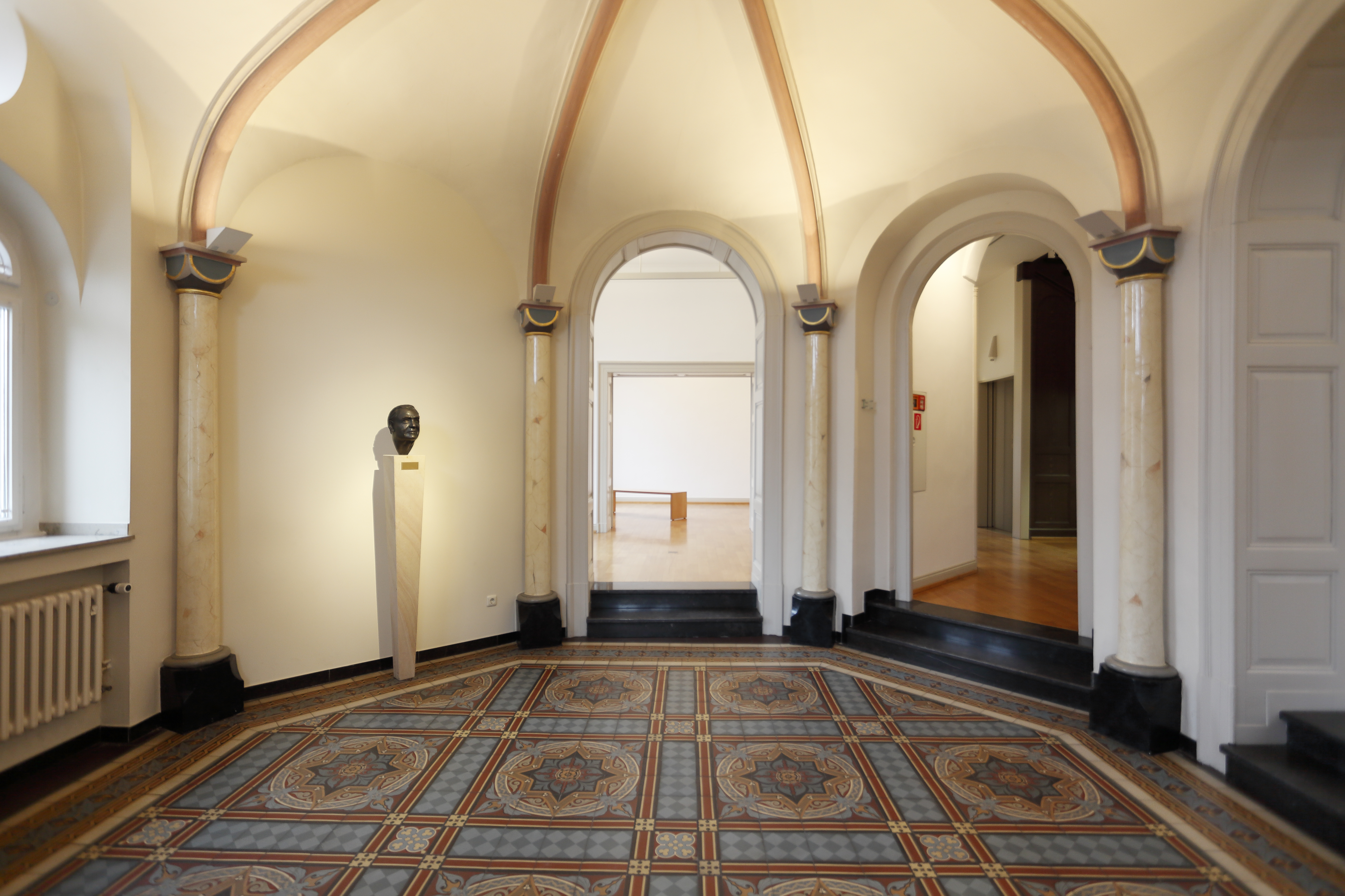 Kunstmuseum Ahlen, historic building, groundfloor, "chapel"